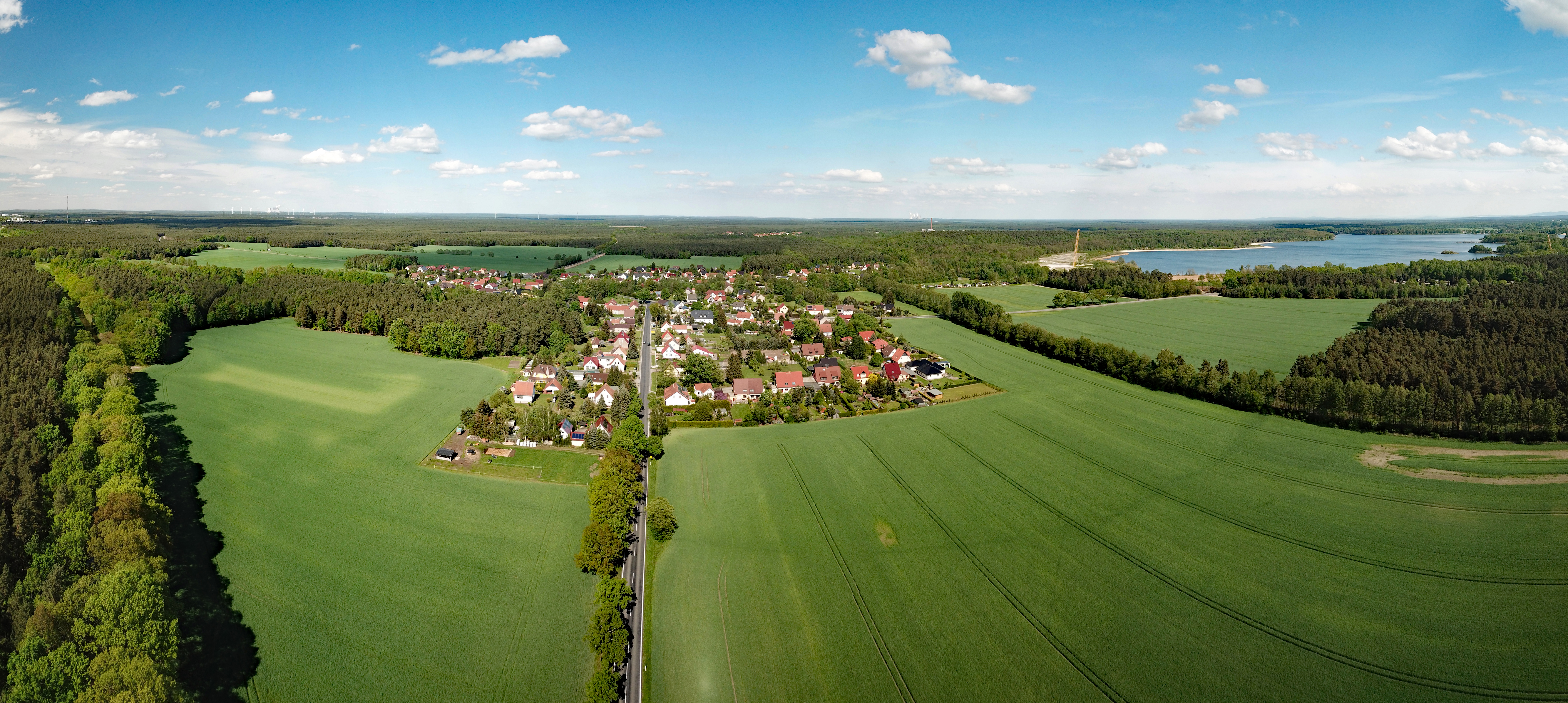 Maukendorf (Wittichenau, Saxony, Germany) Hornjoserbsce: Powětrowy wobraz Mučowa